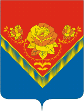 Pavlovsky Posad (Moscow oblast), coat of arms (2002)